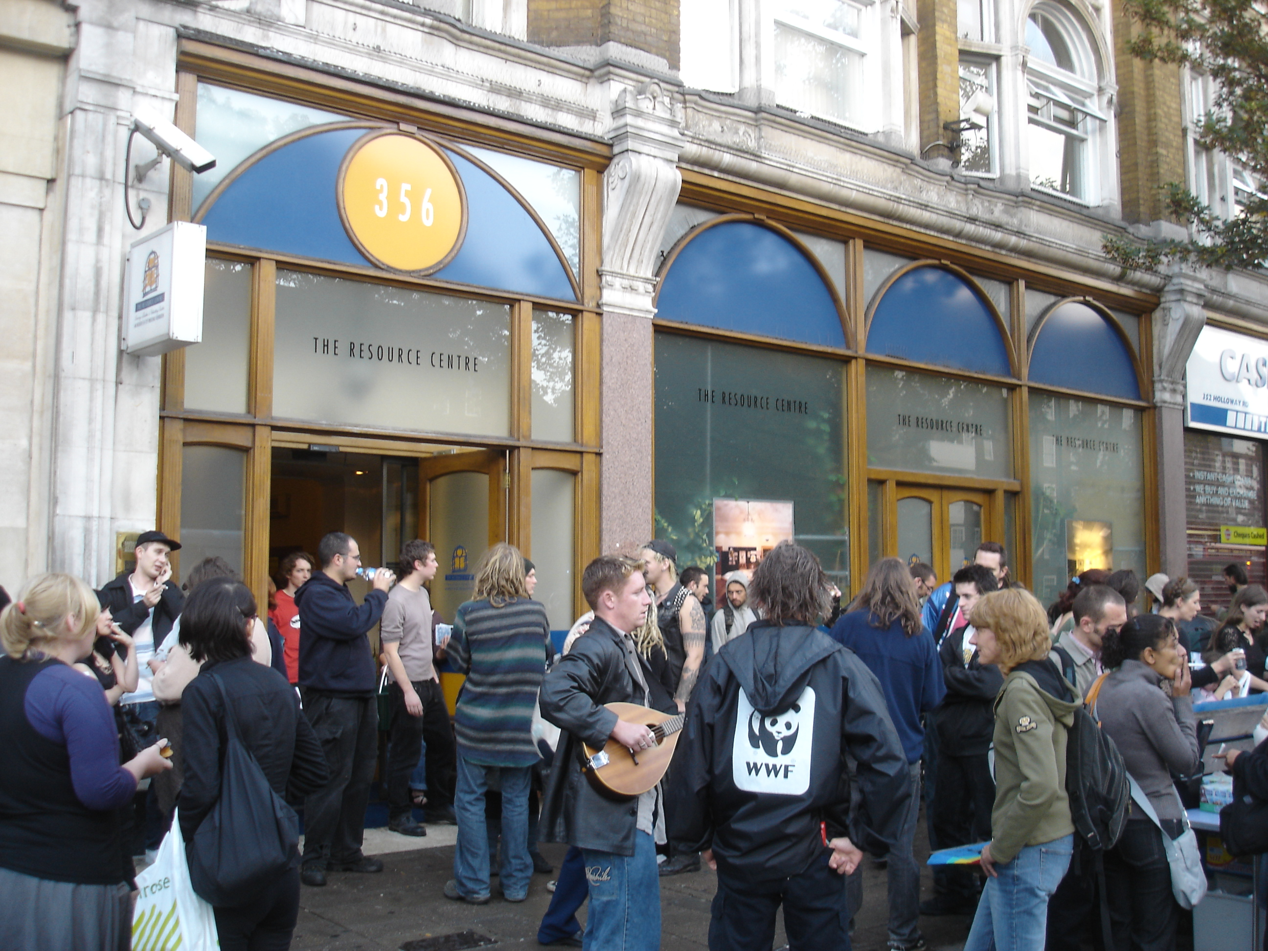 Anarchist Book Fair on Holloway road in London, UK.